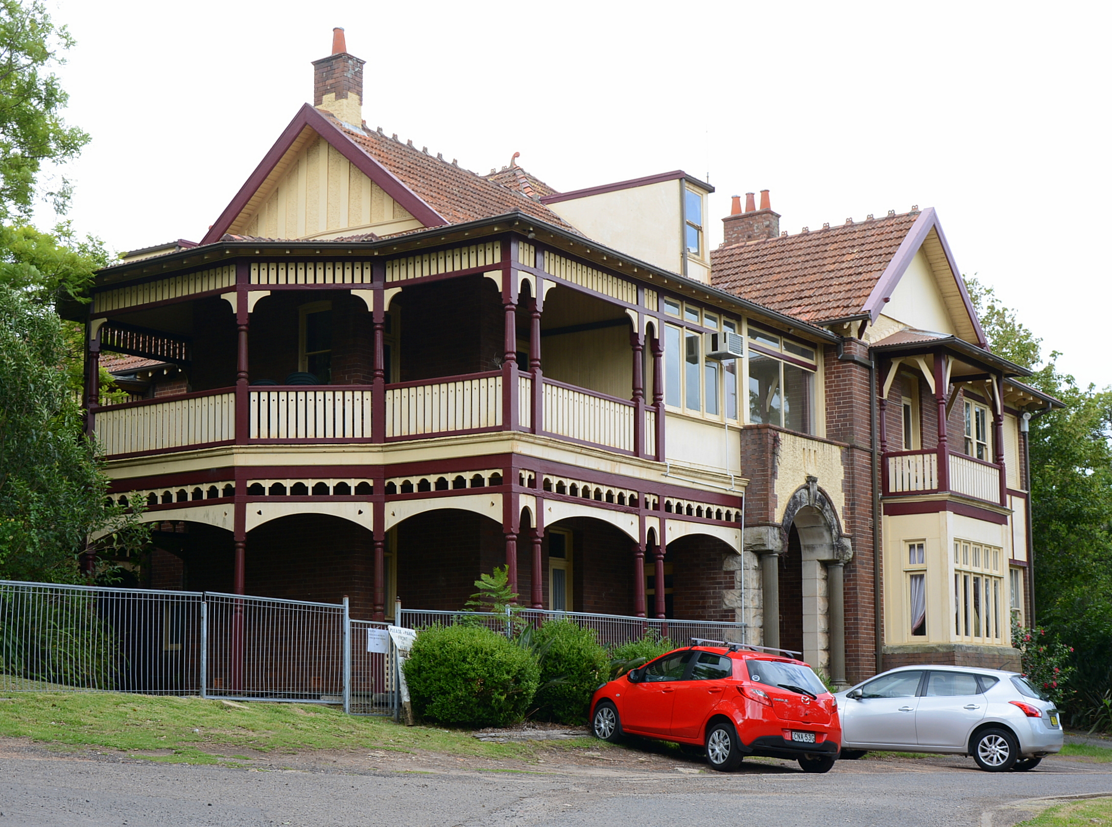 Hillview guesthouse, part of the heritage-listed Hillview estate, Pacific Highway, Turramurra, Sydney